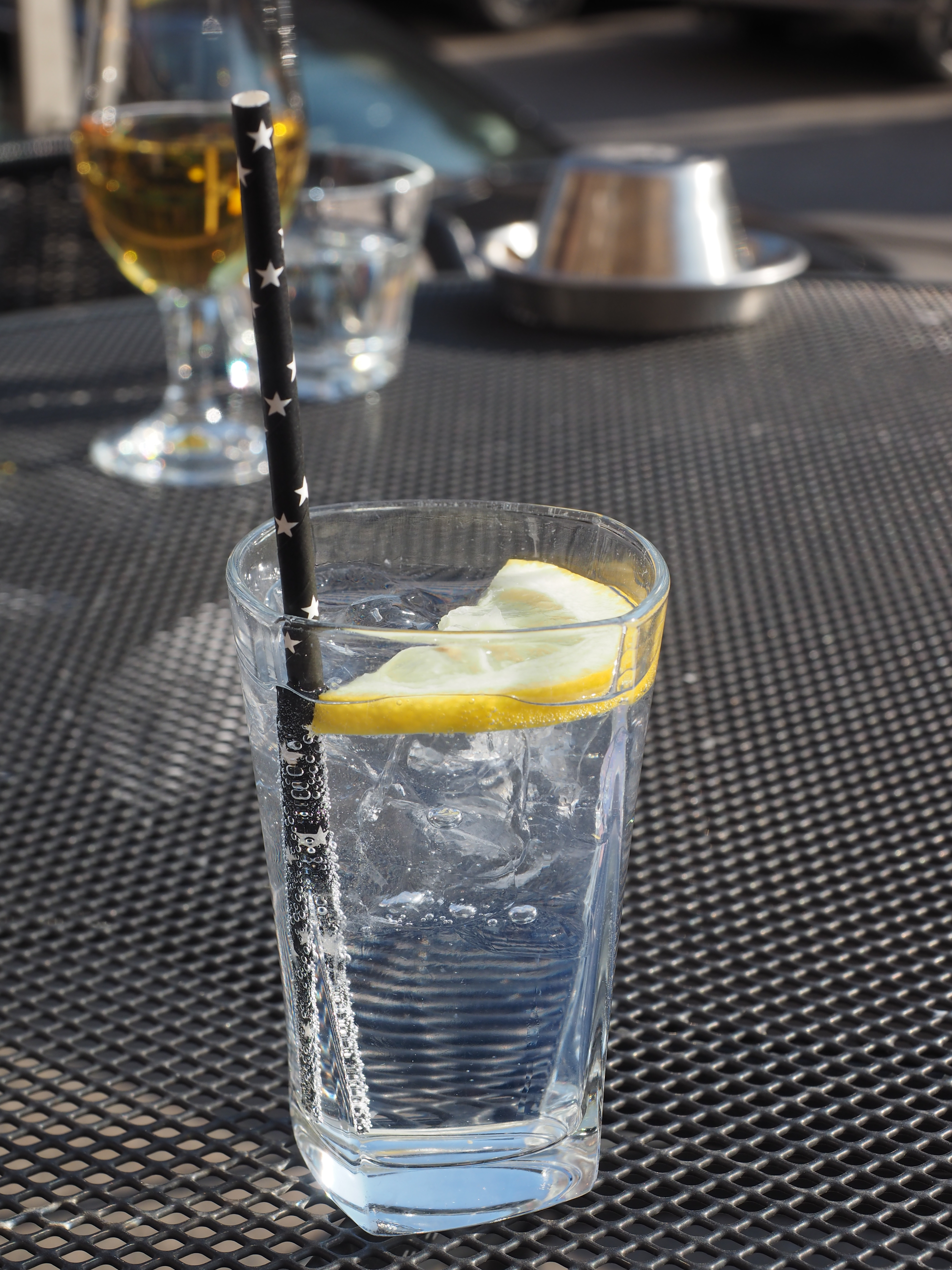 A glass of gin and tonic on the terrace of Hotel Grand Marina in Katajanokka, Helsinki, Finland.